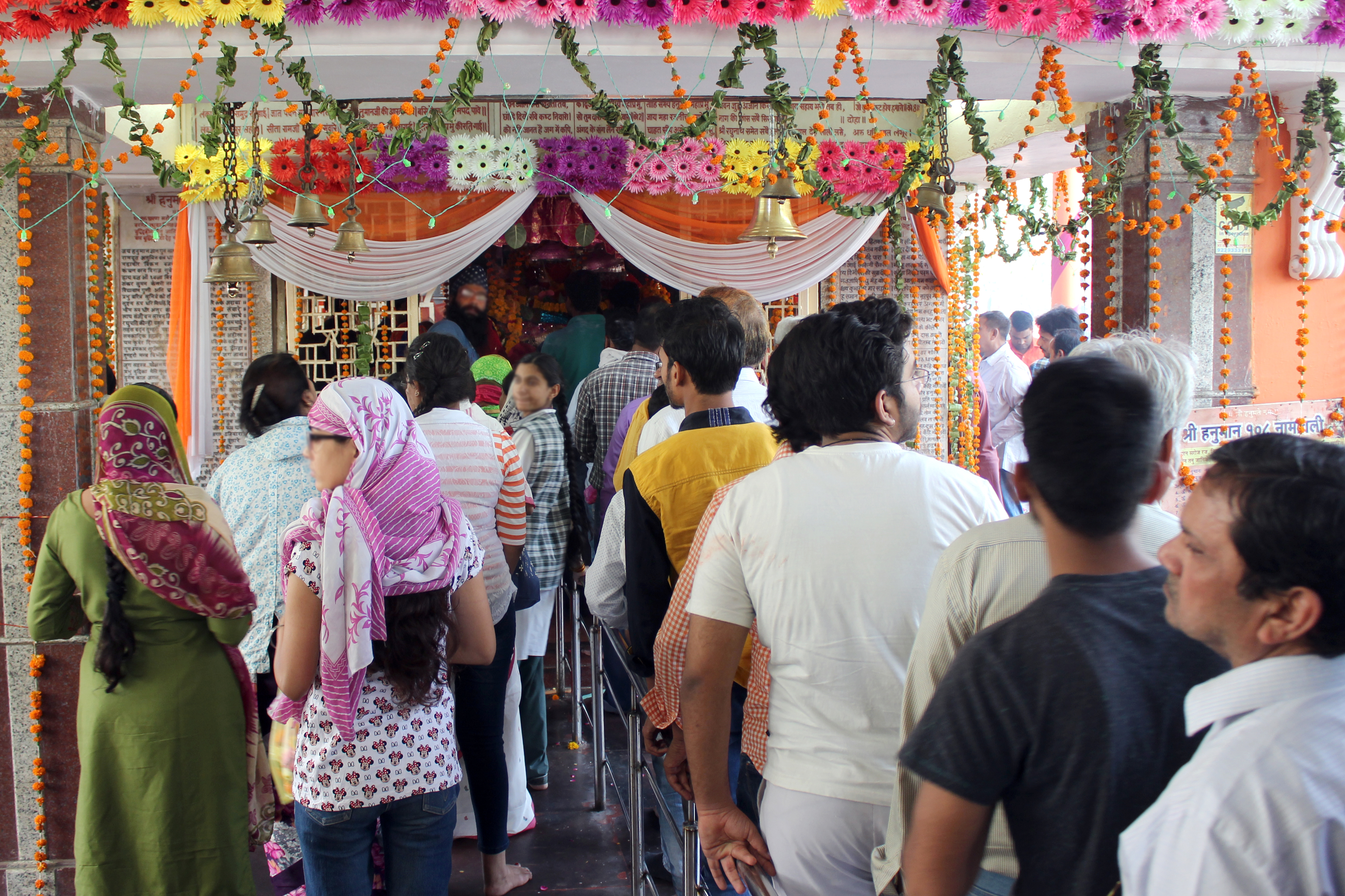 Devotees at Hanuman Jayanti